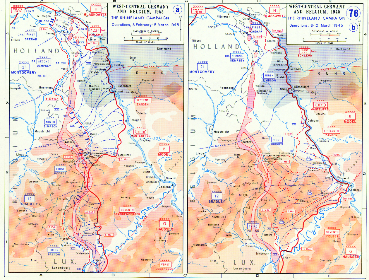 Rhineland Campaign - 6-10 March 1945 Background information: In 1938 the predecessors of what is today The Department of History at the United States Military Academy began developing a series of campaign atlases to aid in teaching cadets a course entitled, "History of the Military Art." Since then, the Department has produced over six atlases and more than one thousand maps, encompassing not only America’s wars but global conflicts as well. In keeping abreast with today's technology, the Department of History is providing these maps on the internet as part of the department's outreach program. The maps were created by the United States Military Academy’s Department of History and are the digital versions from the atlases printed by the United States Defense Printing Agency. We gratefully acknowledge the accomplishments of the department's former cartographer, Mr. Edward J. Krasnoborski, along with the works of our present cartographer, Mr. Frank Martini. Please be aware that these maps are large in file size and may require substantial download times.